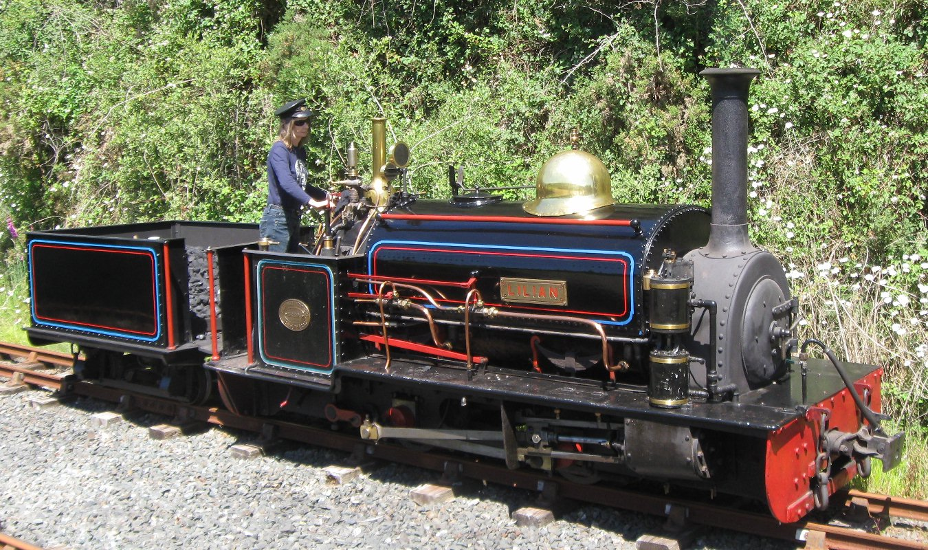 Quarry Hunslet Lilian (No. 317, 1883) at Launceston Steam Railway